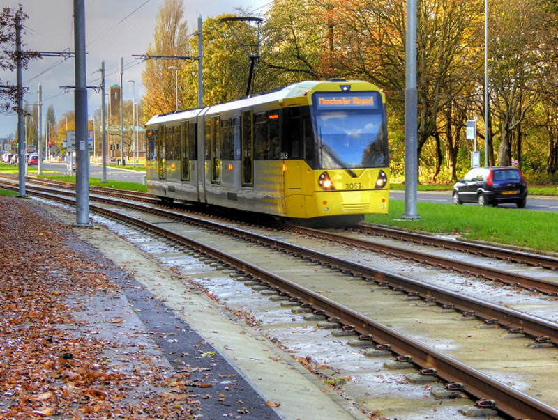 Metrolink Airport Line, Simonsway Between Robinswood Road and Peel Hall, the tramway route uses a reserved way alongside the southern side of Simonsway. Here, Bombardier tram number 3063 is travelling towards Manchester Airport.